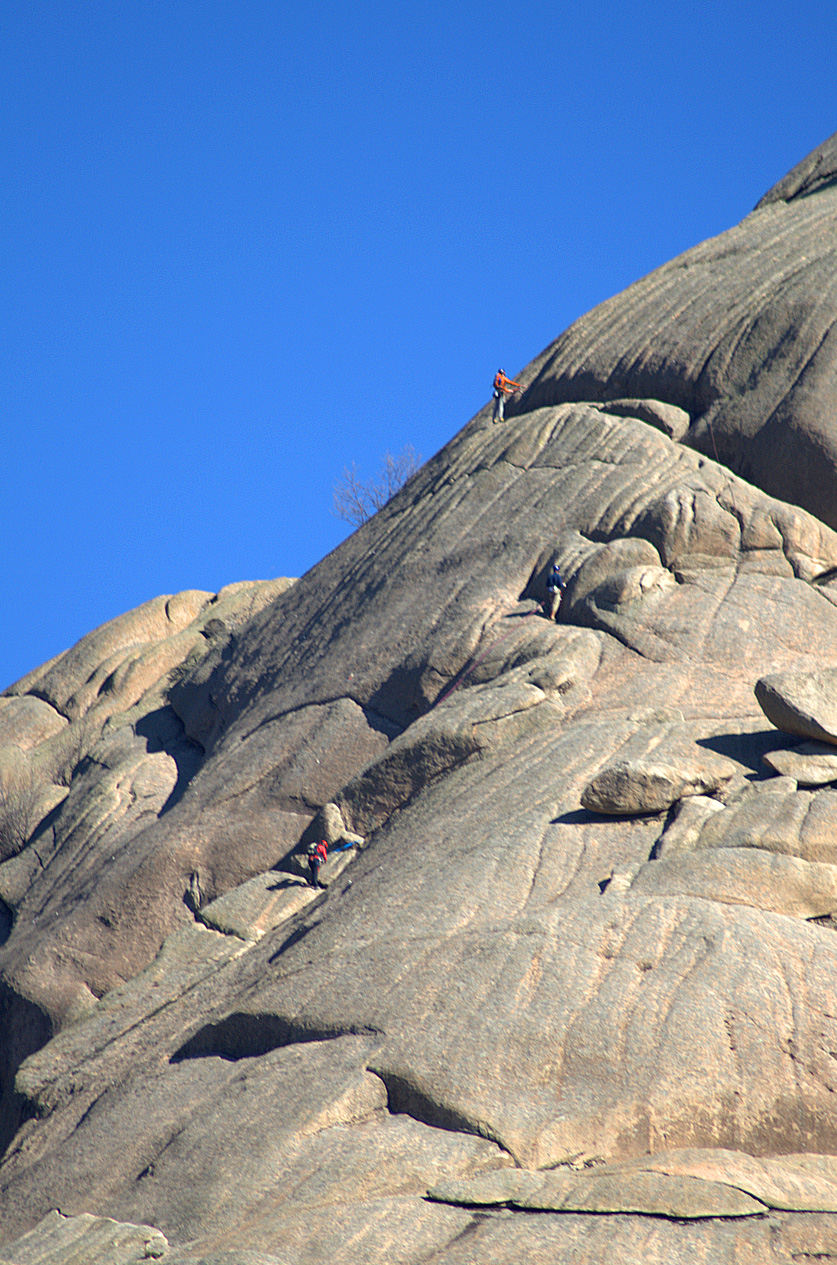 Sin techo